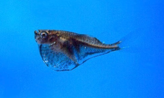 Black-winged hatchetfish Carnegiella marthae